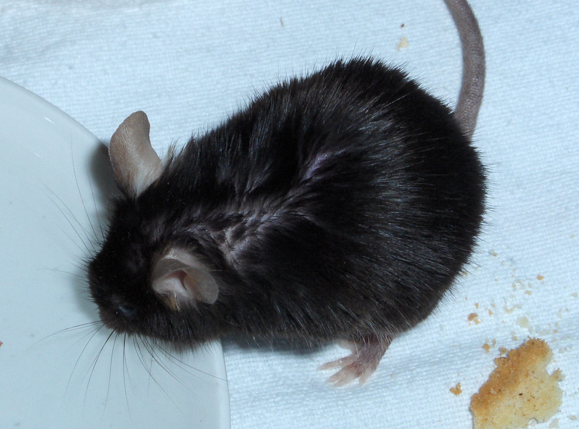 Lab mouse of strain C57BL/6 = Black 6, female, 22 months of age, while drinking